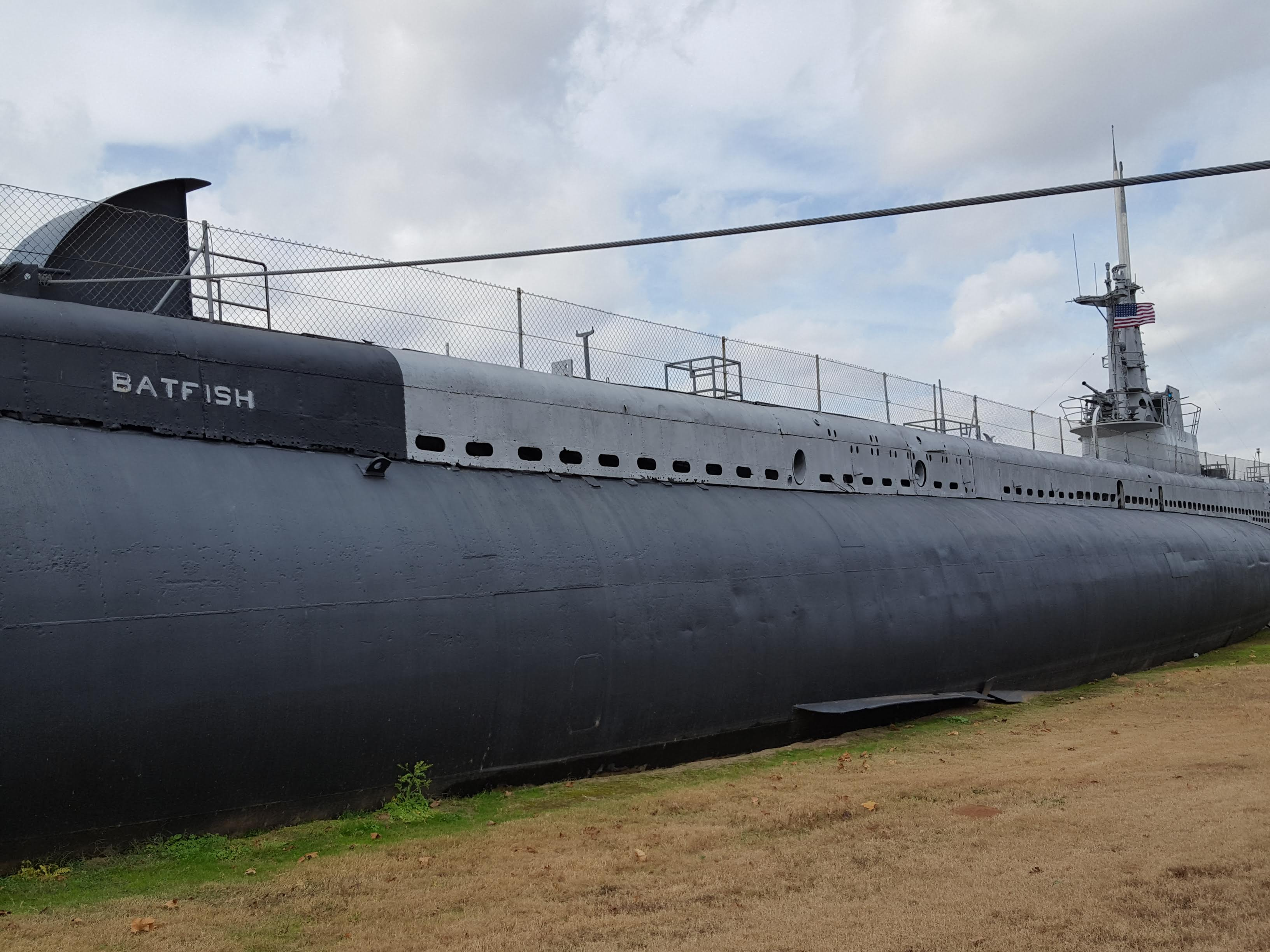 A photo of the USS Batfish (SS-310), a World War II submarine and now a museum ship in Muskogee, Oklahoma